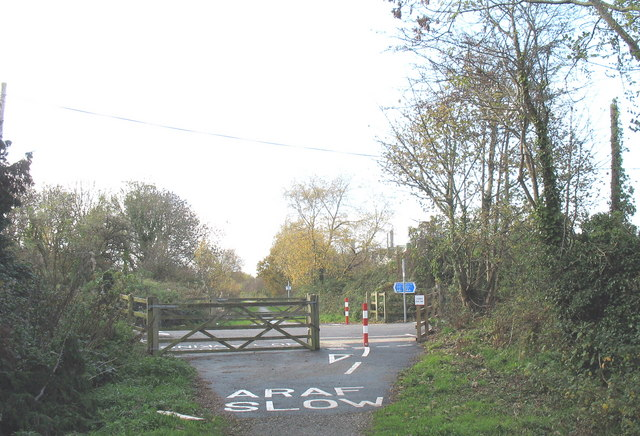 Approaching Griffith's Crossing